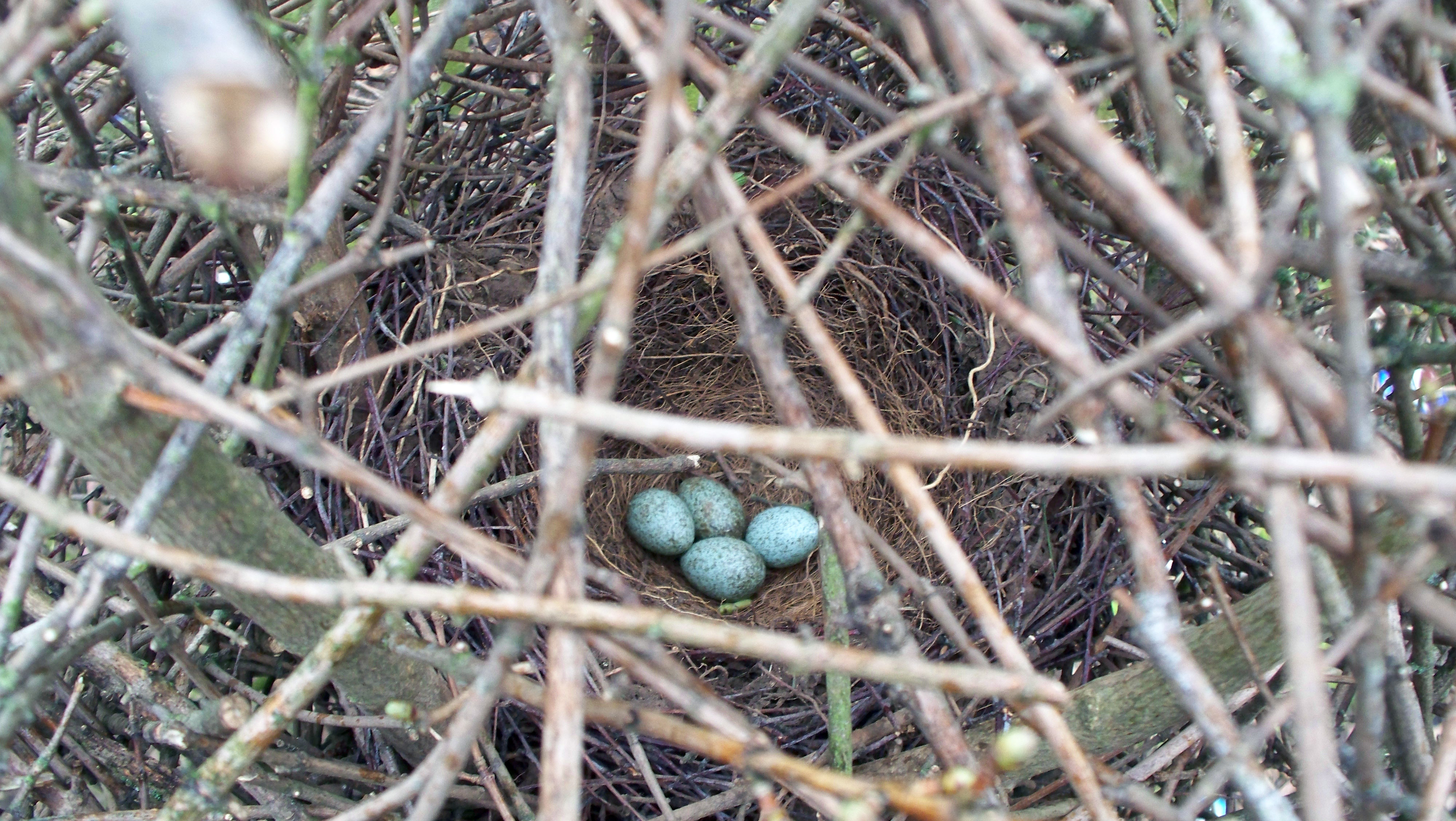 Latin name Pica pica Family Crows and allies (Corvidae) Overview When seen close-up its black plumage takes on an altogether more colourful hue... Where to see them ... When to see them All year round. What they eat Omnivore and scavenger.